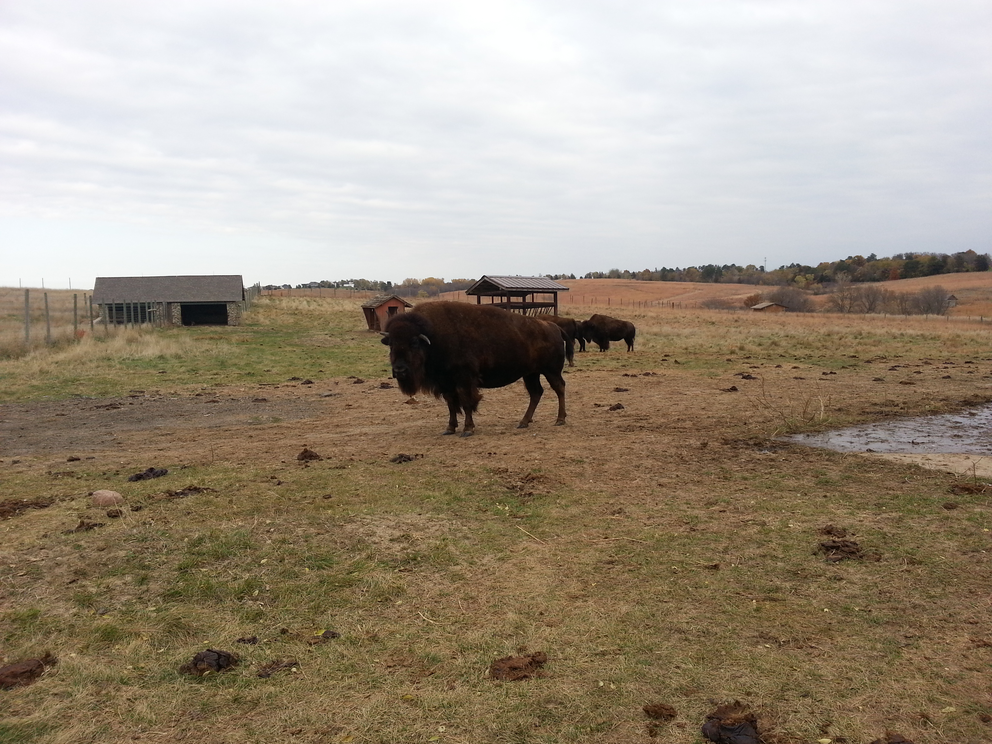 Bison bison grazing at Pioneers Park Nature Center in Lincoln, Nebraska on 4 November 2013.